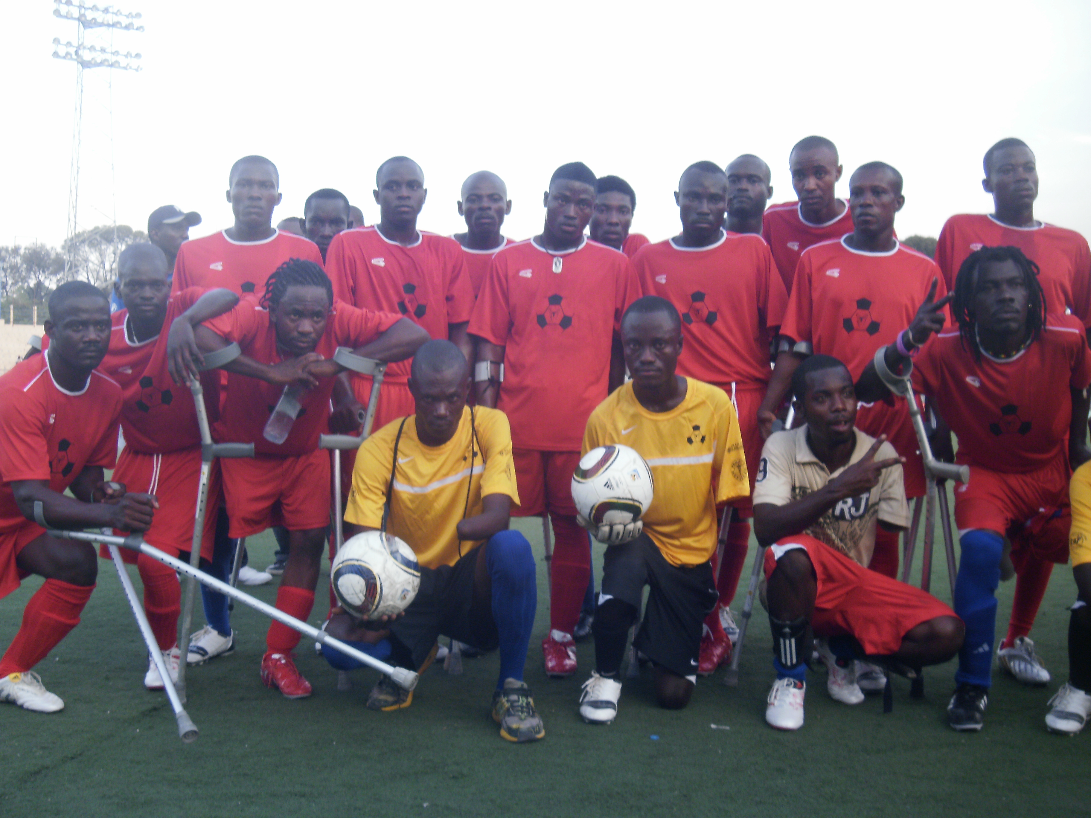 Team Photo before game